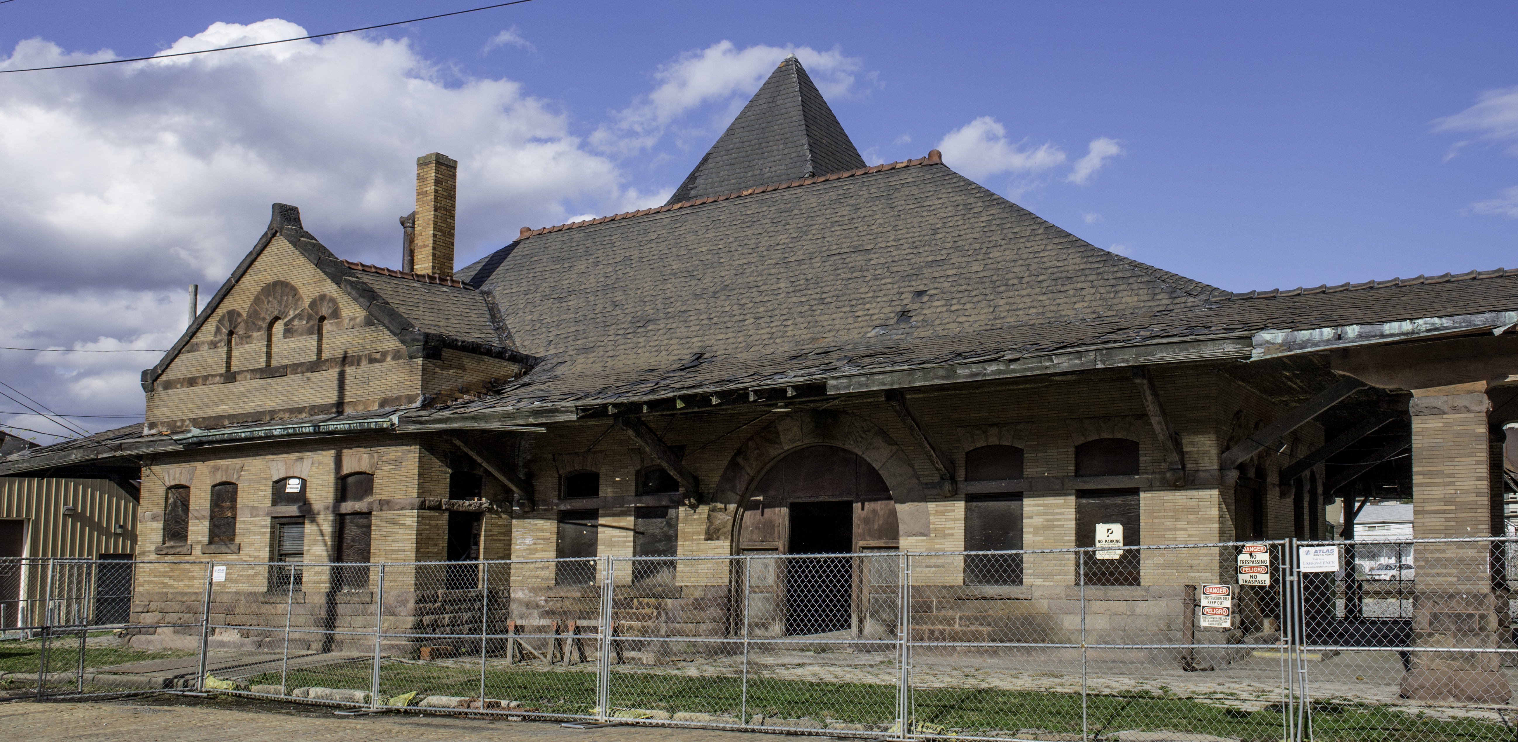 Coraopolis Train Station 2015